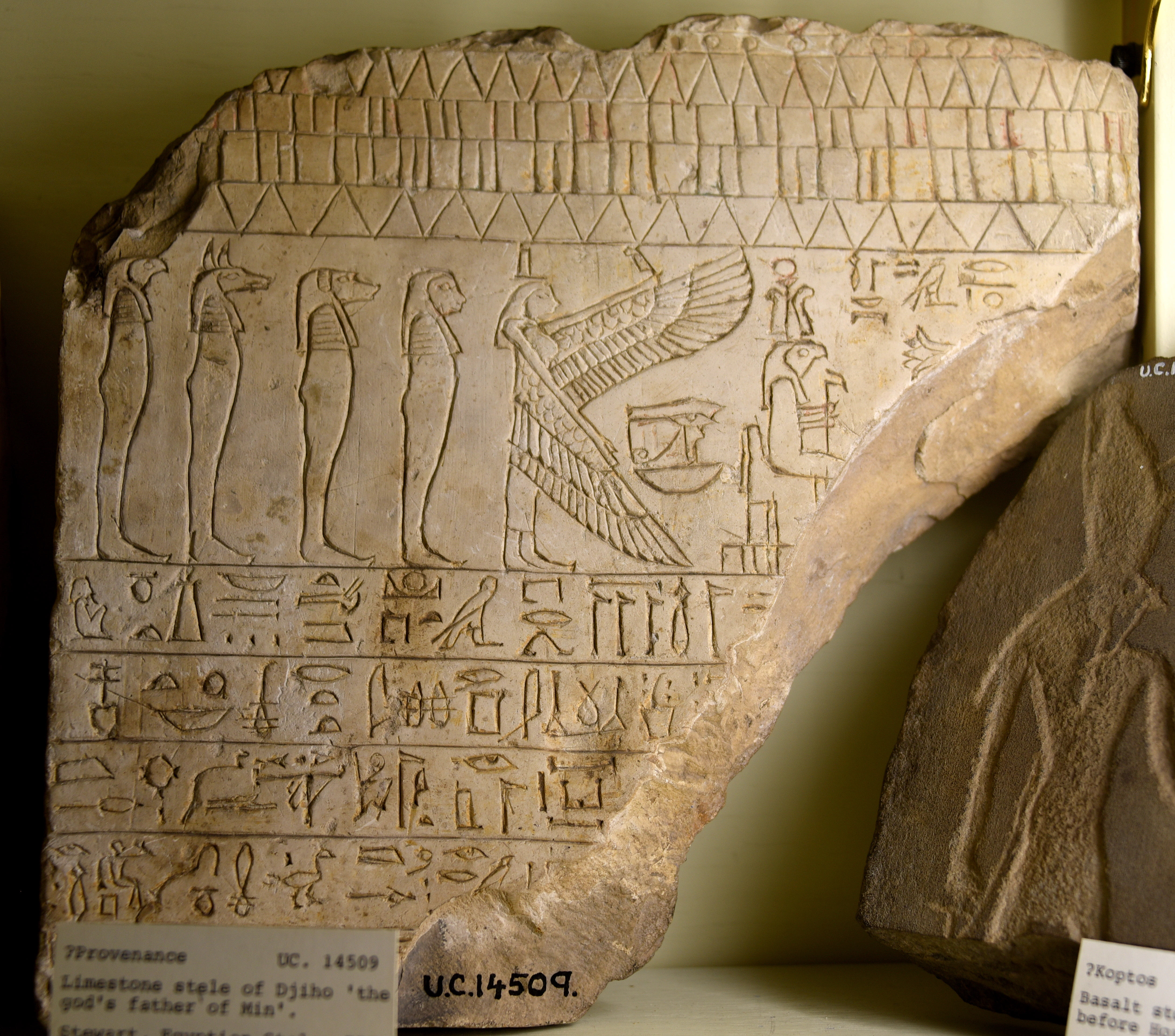 Fragment of a limestone stela of Djiho (Djedher), the God's Father of Min. The falcon-headed god Ra-Horakhty sits on a chair. Behind him, human-headed and winged Isis and 4 sons of Horus stand. Ptolemaic, 27th Dynasty. From Egypt. The Petrie Museum of Egyptian Archaeology, London. With thanks to the Petrie Museum of Egyptian Archaeology, UCL.